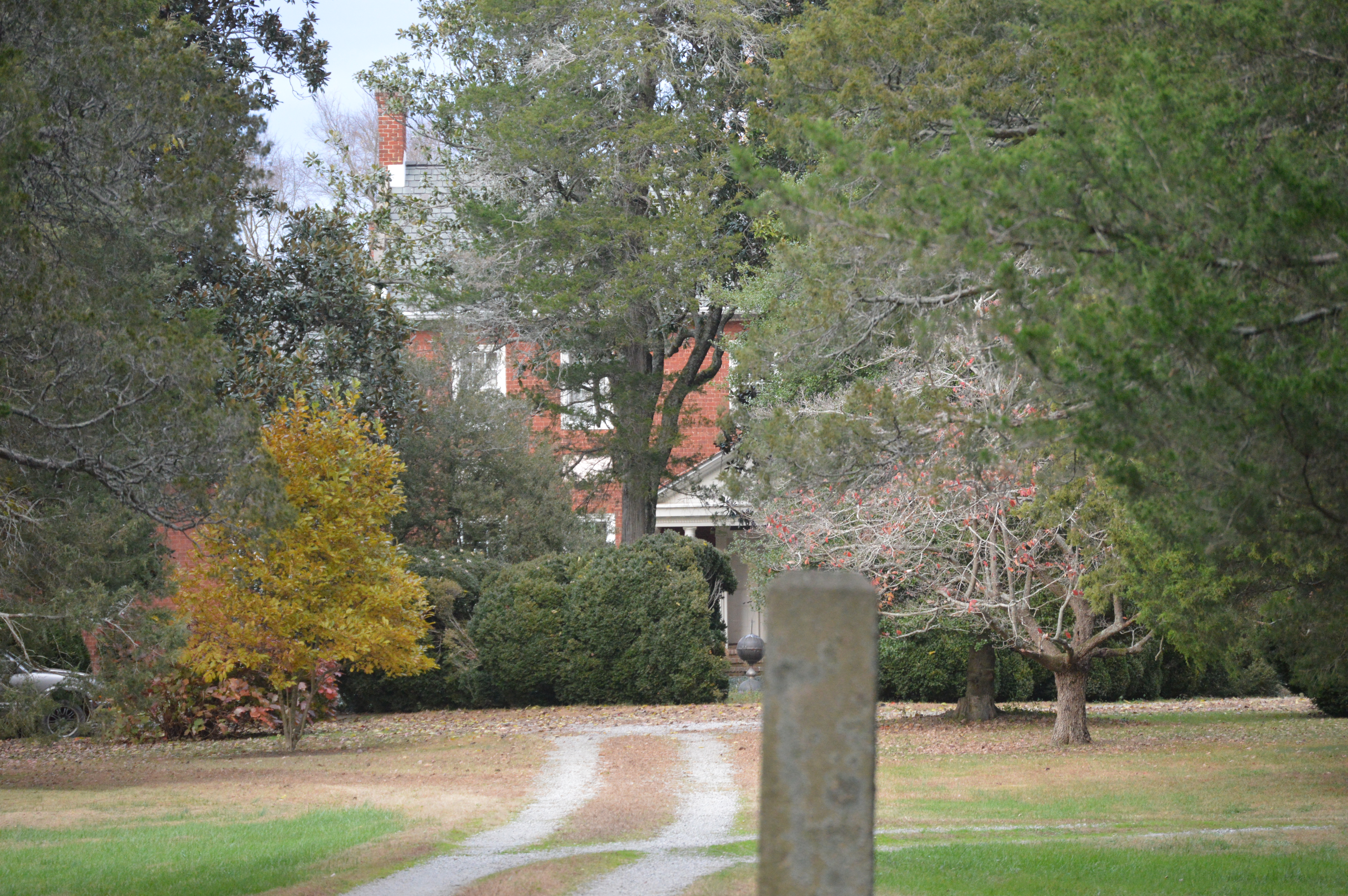 Distant roadside view of Brickland, located at 6877 Brickland Road southeast of Kenbridge in Lunenburg County, Virginia, United States. Built in 1822, it is listed on the National Register of Historic Places.